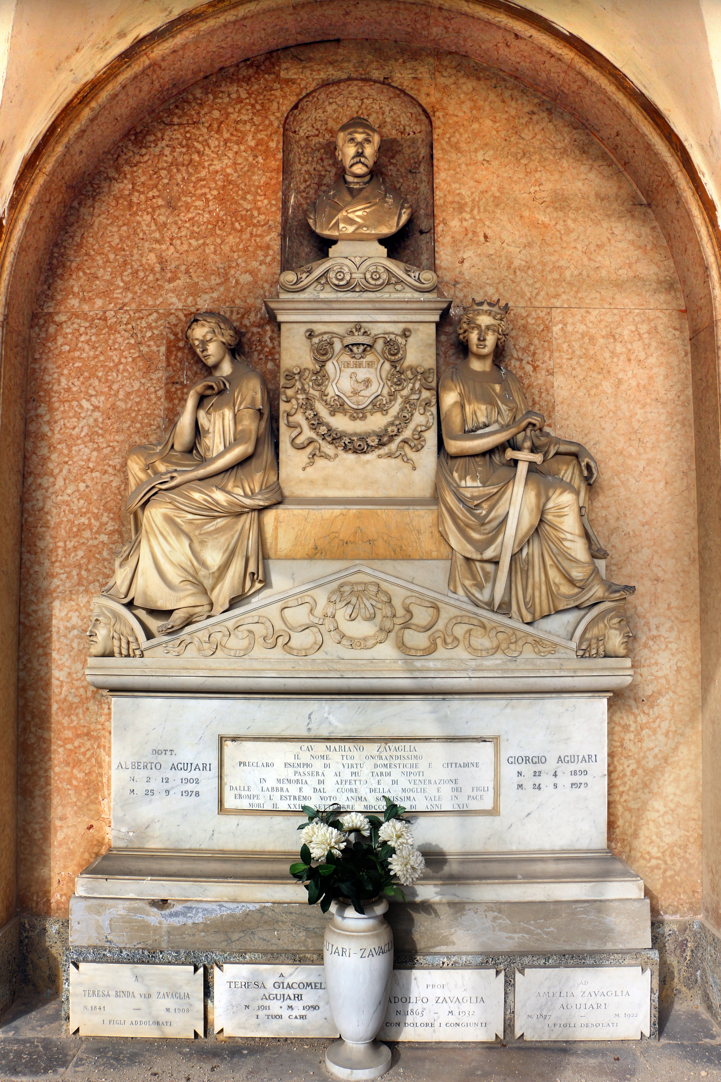 Cimitero Monumentale (Ferrara)